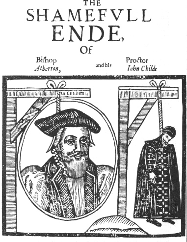 John Atherton (1598-1640) (left) and John Childe (16xx-1640) (right), from the title page of the anonymous booklet The shameful ende of Bishop Atherton and his Proctor Iohn Childe, published in 1641). John Atherton, Bishop of Waterford and Lismore, was hanged for sodomy under a law that he had helped to institute. His lover was John Childe, his steward and tithe proctor, also hanged.